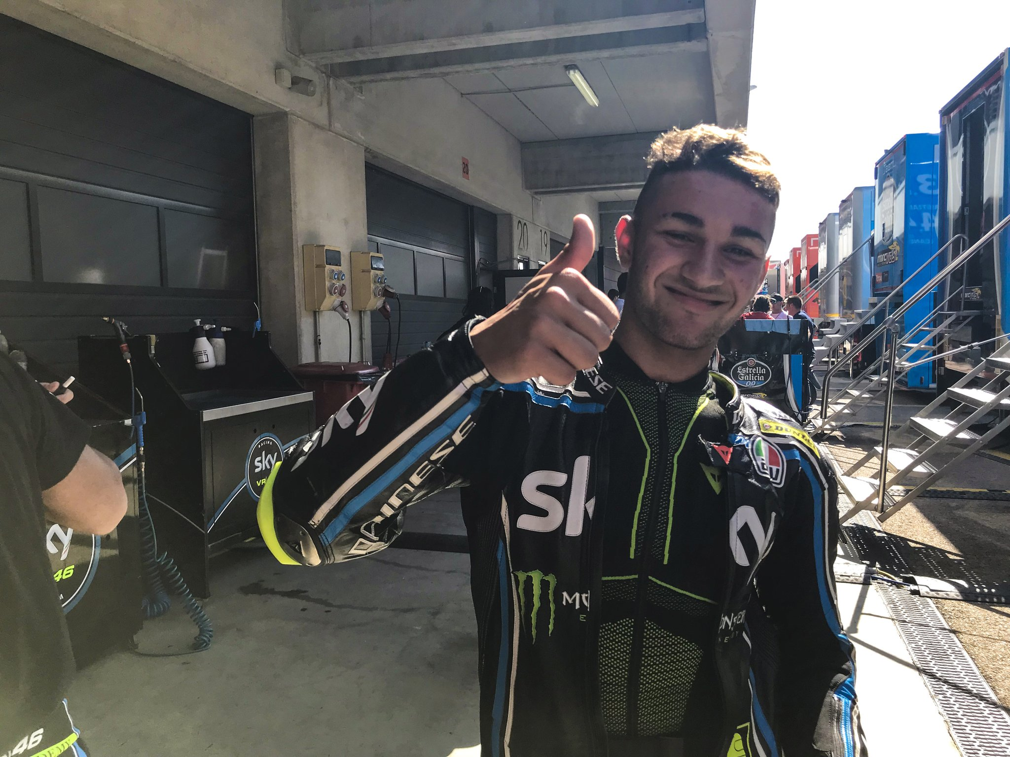 Dennis Foggia Moto3 Aragon 2017